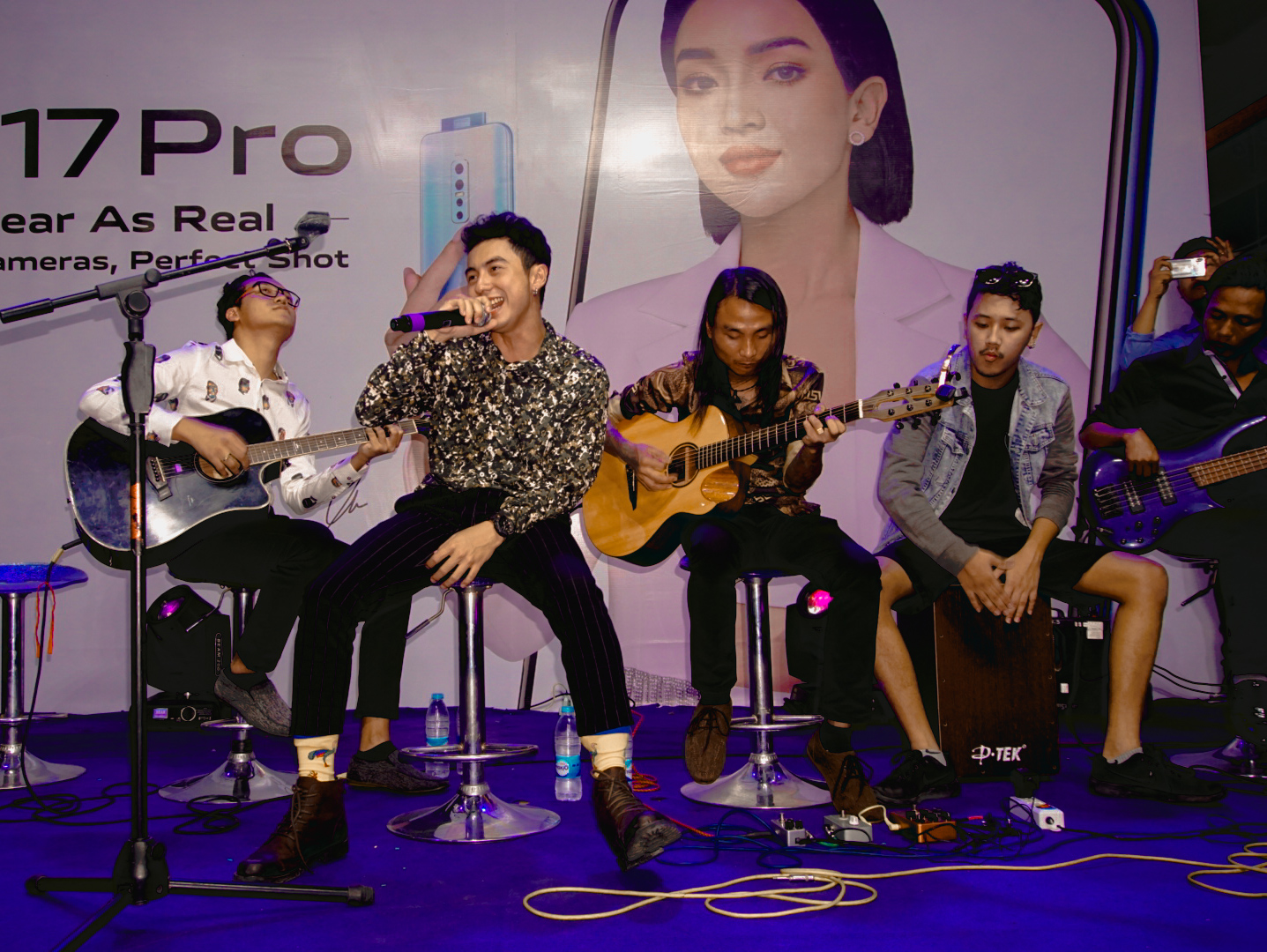 Eternal Gosh! performing Vivo V17 Pro Promotion Show at Mandalay 2019